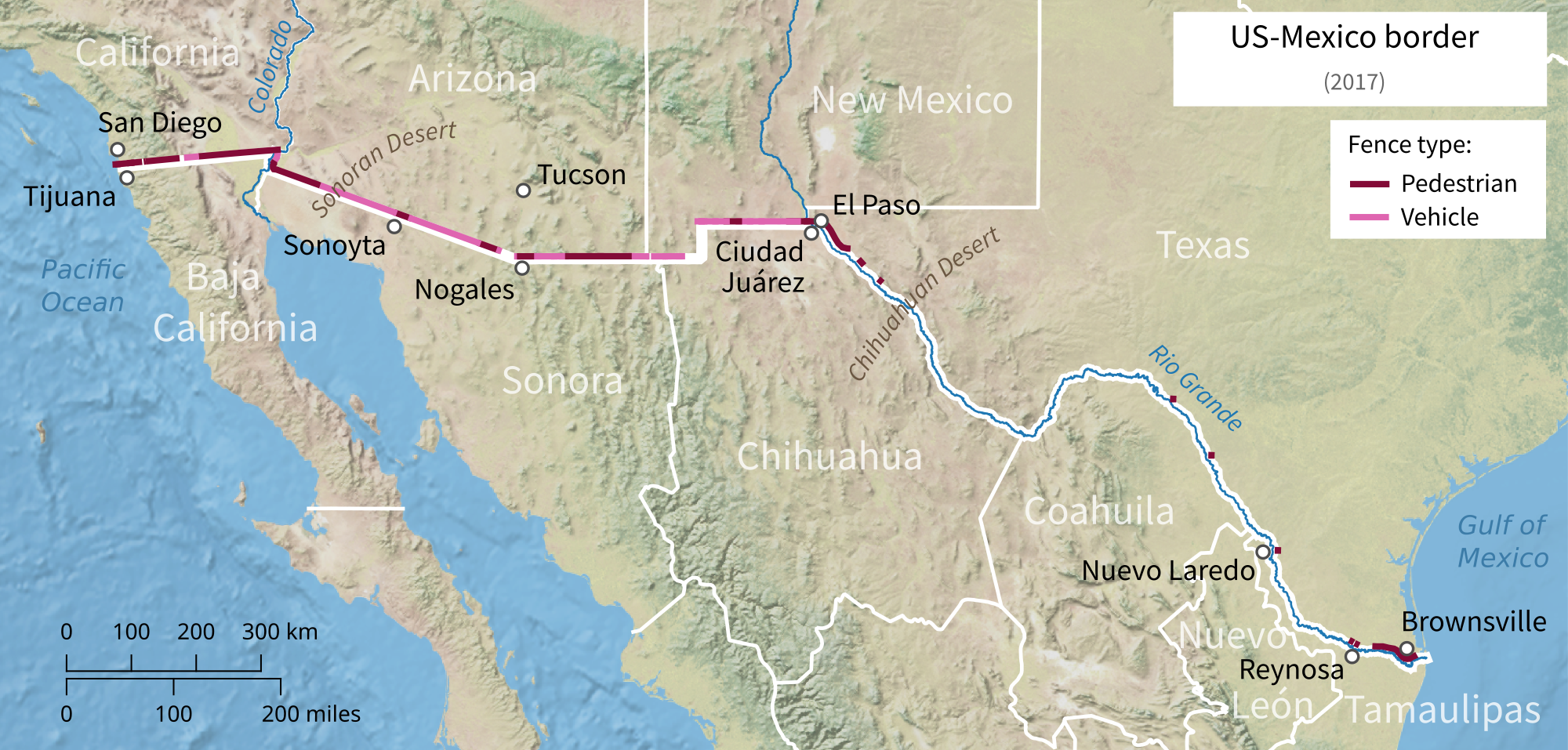 Map of the Mexico–United States barrier as of 2017.